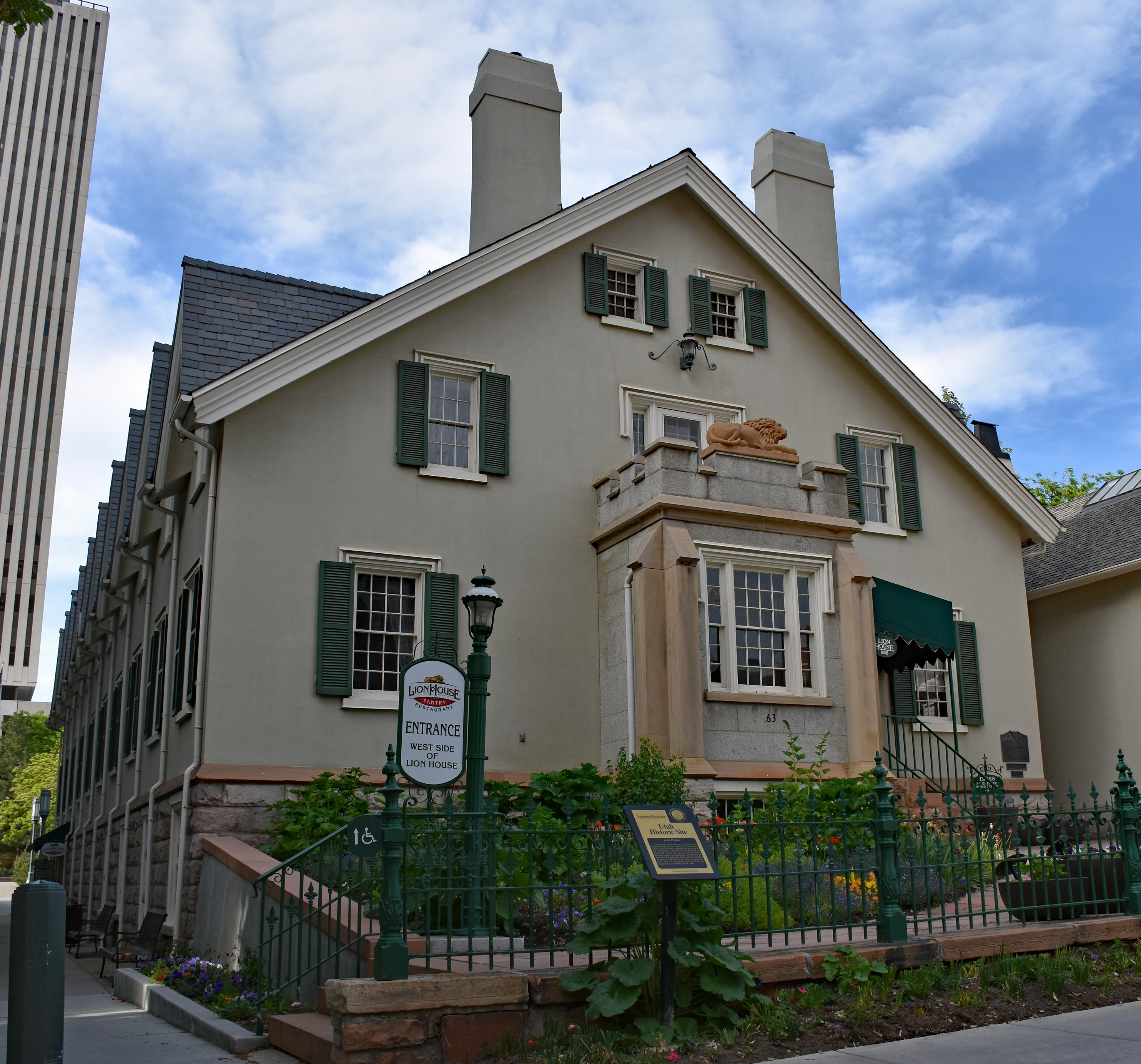 A view of the front (south side) and west side of Brigham Young's Lion House in downtown Salt Lake City, Utah.